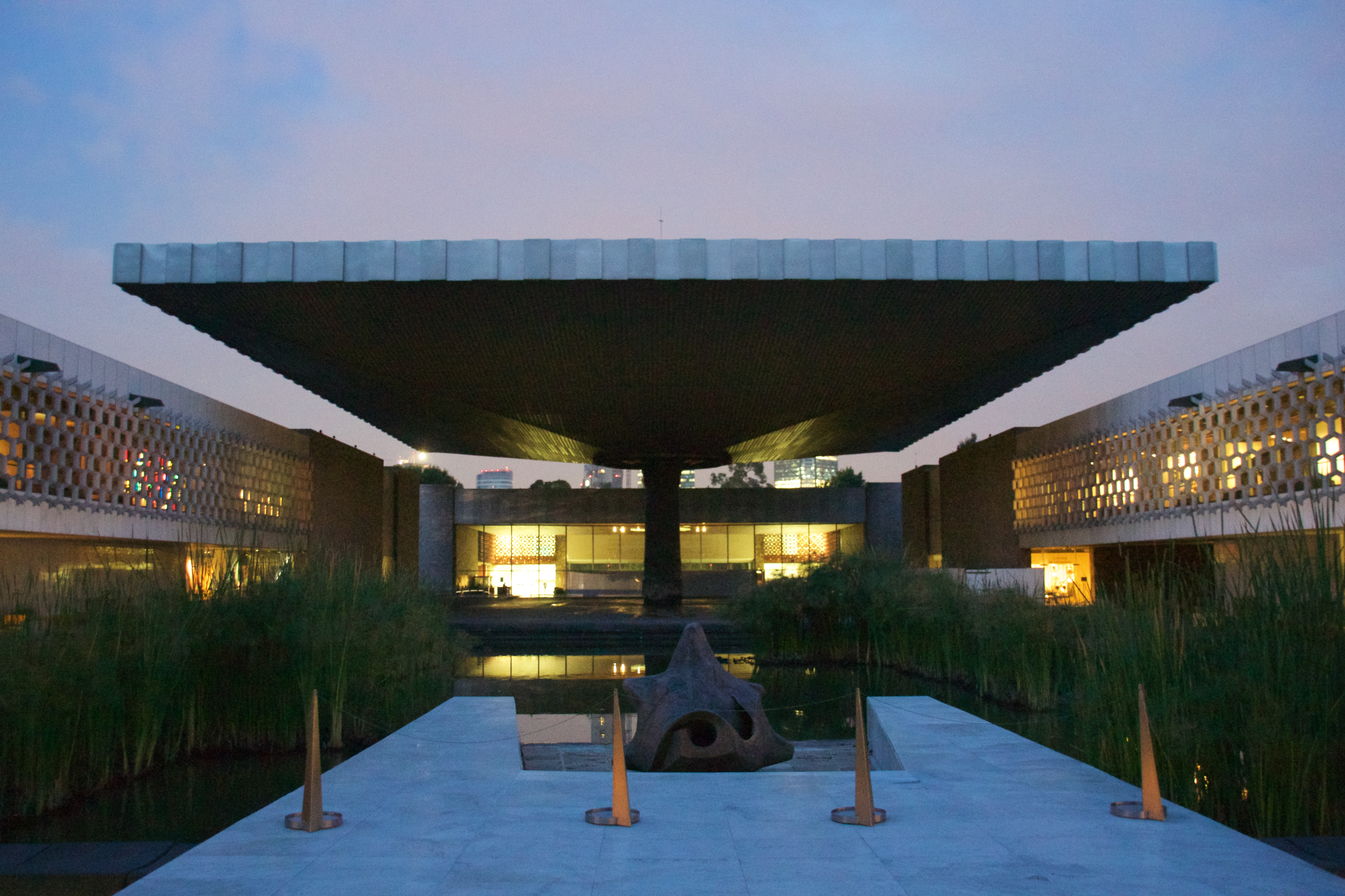 Wiki takes Antropología, at the Museo Nacional de Antropología, Mexico City, Mexico.